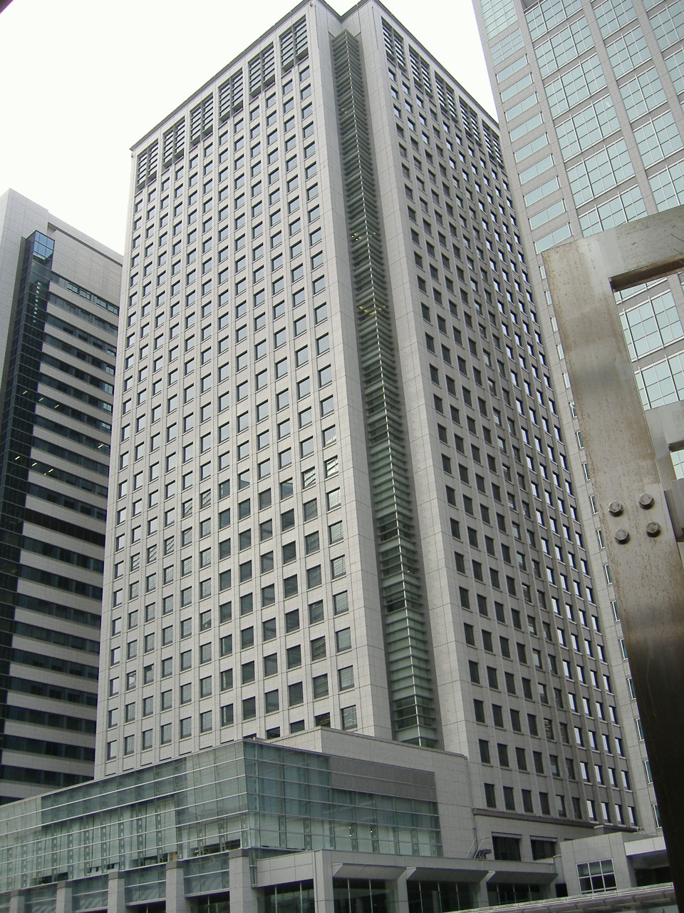 Shinagawa_Grand-central-tower_Building(Tokyo,Japan).